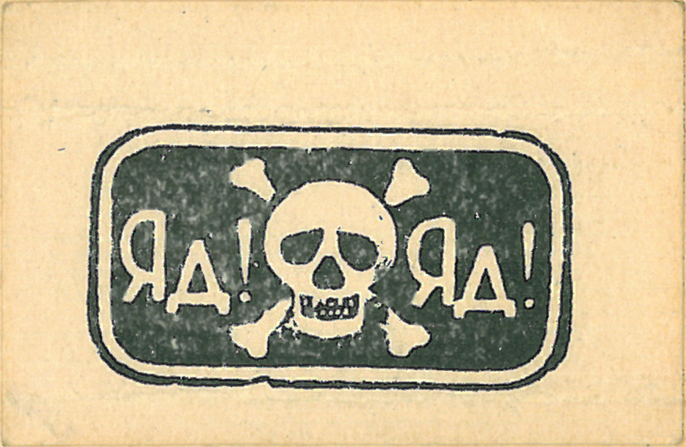 Label for medicines "Poison" with Totenkopf for the Soviet drugstores of 1930th years.